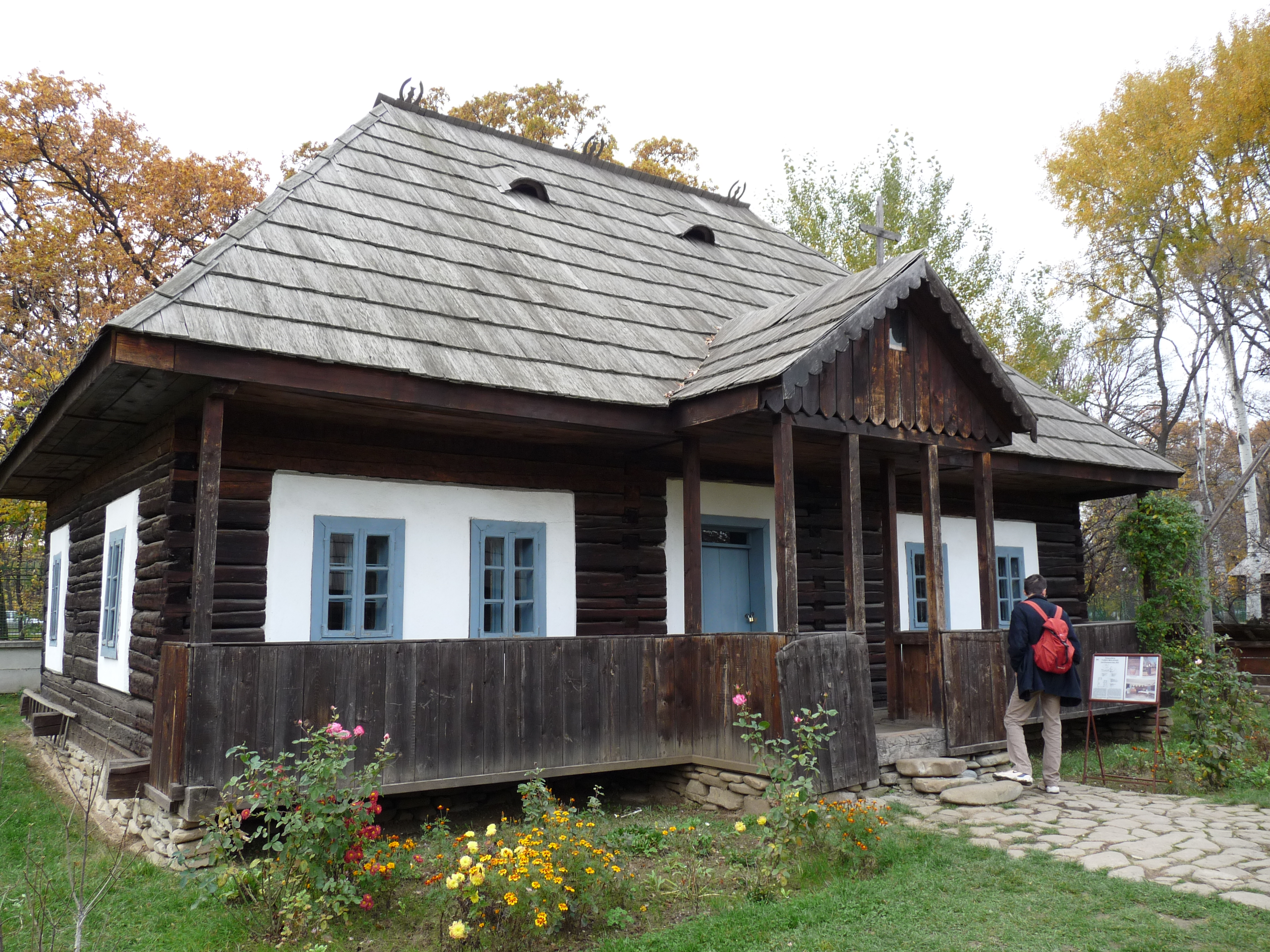 19th century household from Fundu Moldovei, Suceava County, Romania, exhibited at the Village Museum in Bucharest. The house.